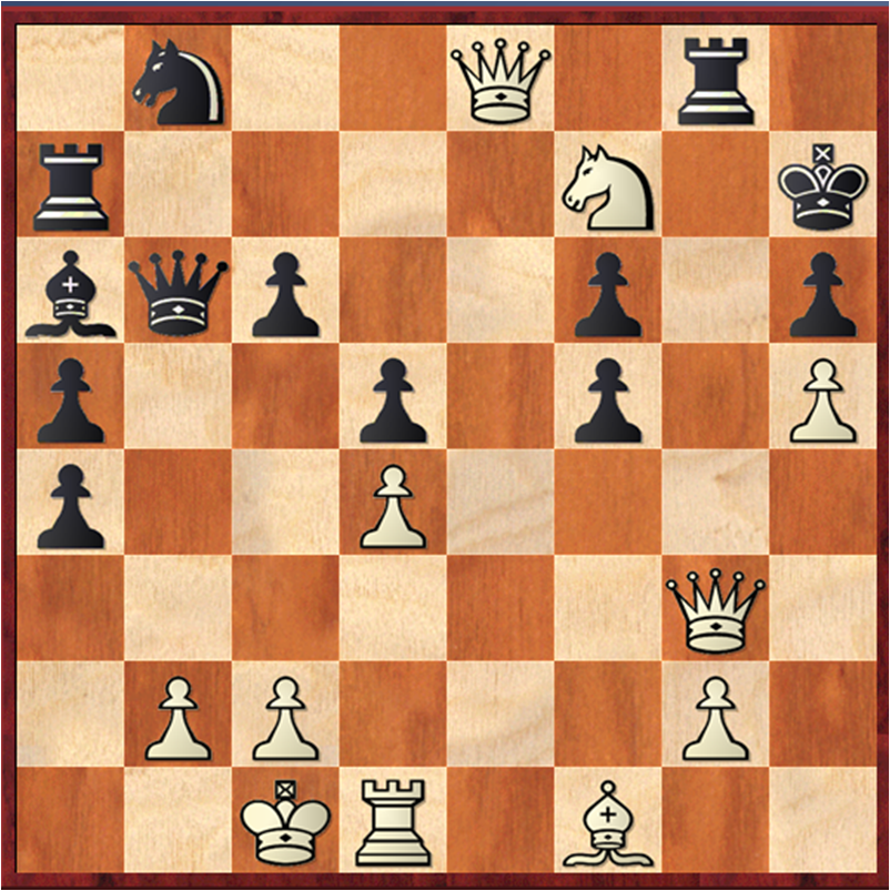 Final Position of Trent, Lawrence – Tan Desmond 1-0 A45 BCF-chT 0203 (4NCL) (10) 2002